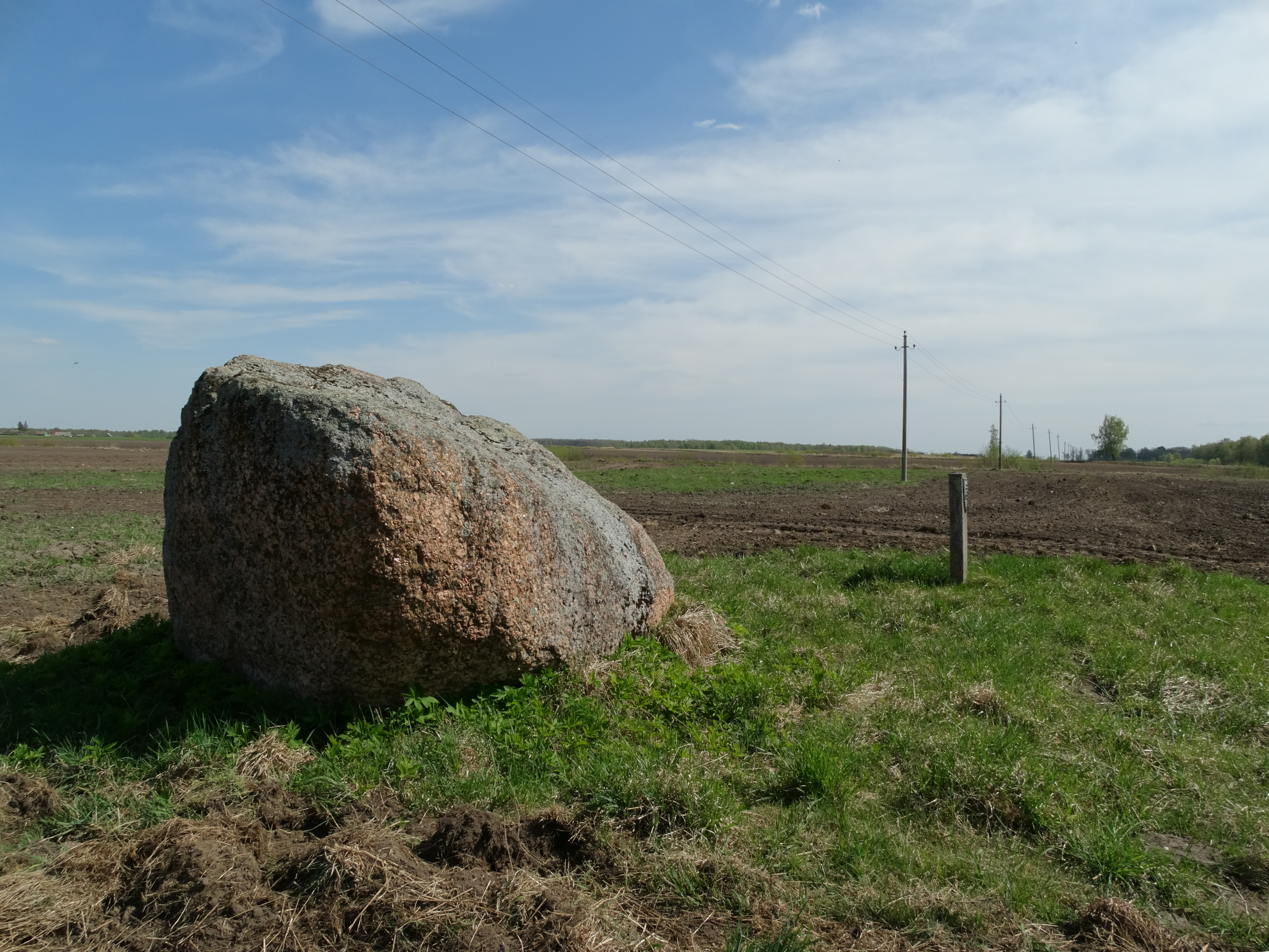 Daukonys mythological stone, Radviliškis District, Lithuania